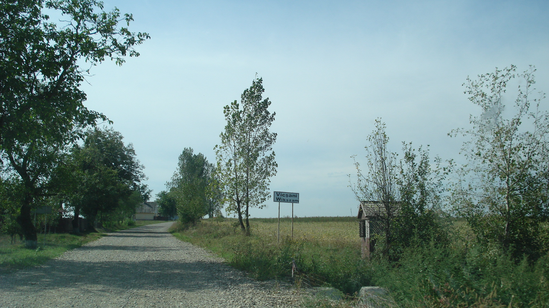 Vicsani1, Suceava